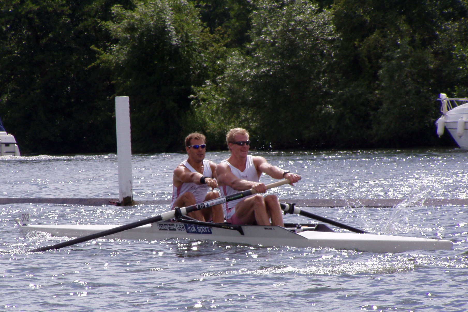 The GB Pair (Toby Garbett & Rick Dunn) rowing at Henley Royal Regatta 2004.